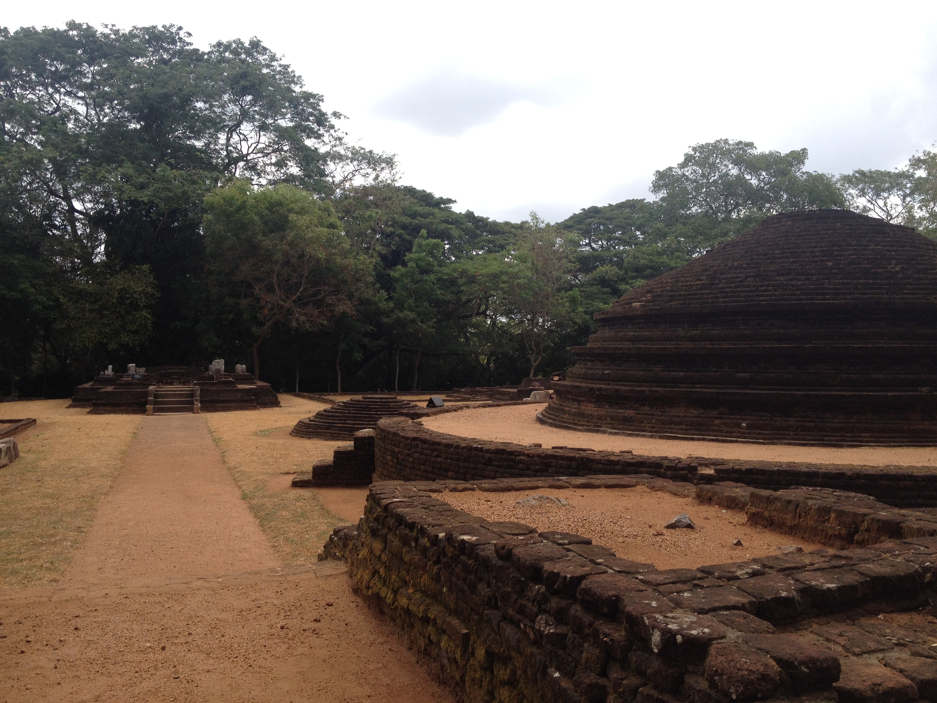 The Buddhist ruins at Panduwasnuwara archaeological site, Sri Lanka